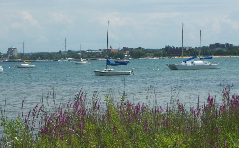 Ships in the Grand Traverse Bay West Arm, in front of the Traverse City waterfront (Carson Maynard, 2006).